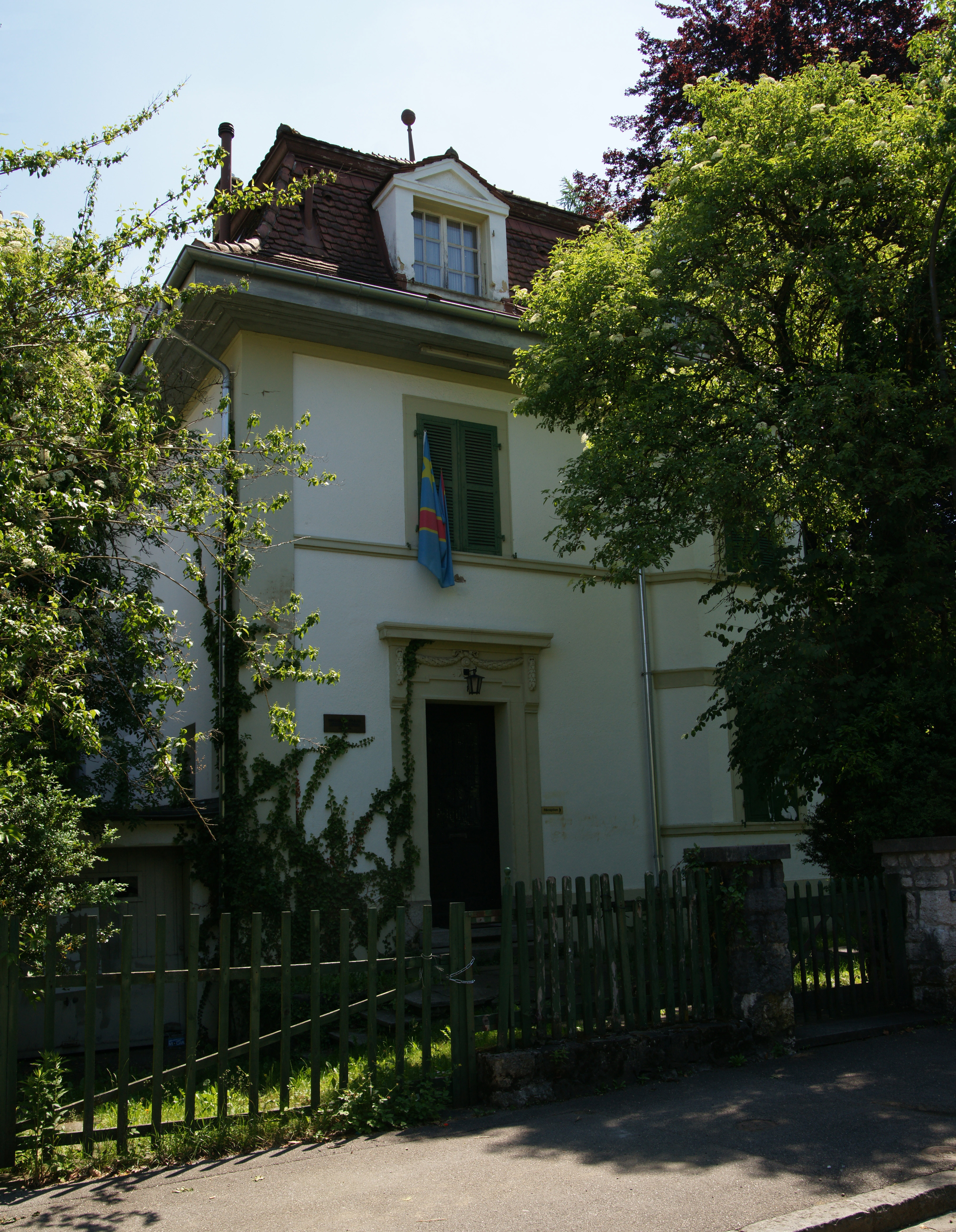 Embassy of the Democratic Republic of the Congo on Sulgenheimweg 21, Bern, Switzerland.